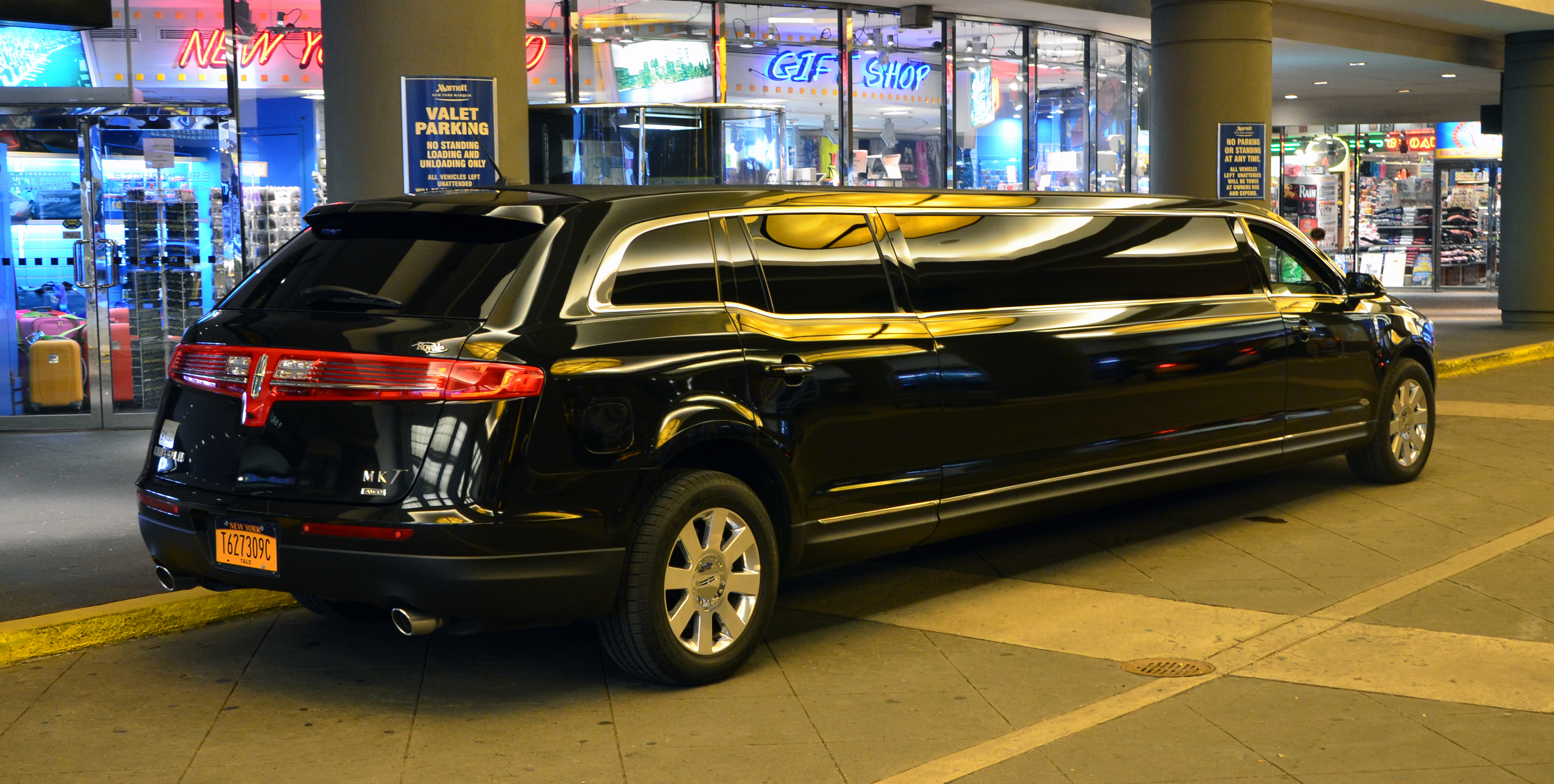 Lincoln MKT stretch limousine, photographed under the New York Marriott Marquis hotel in Manhattan